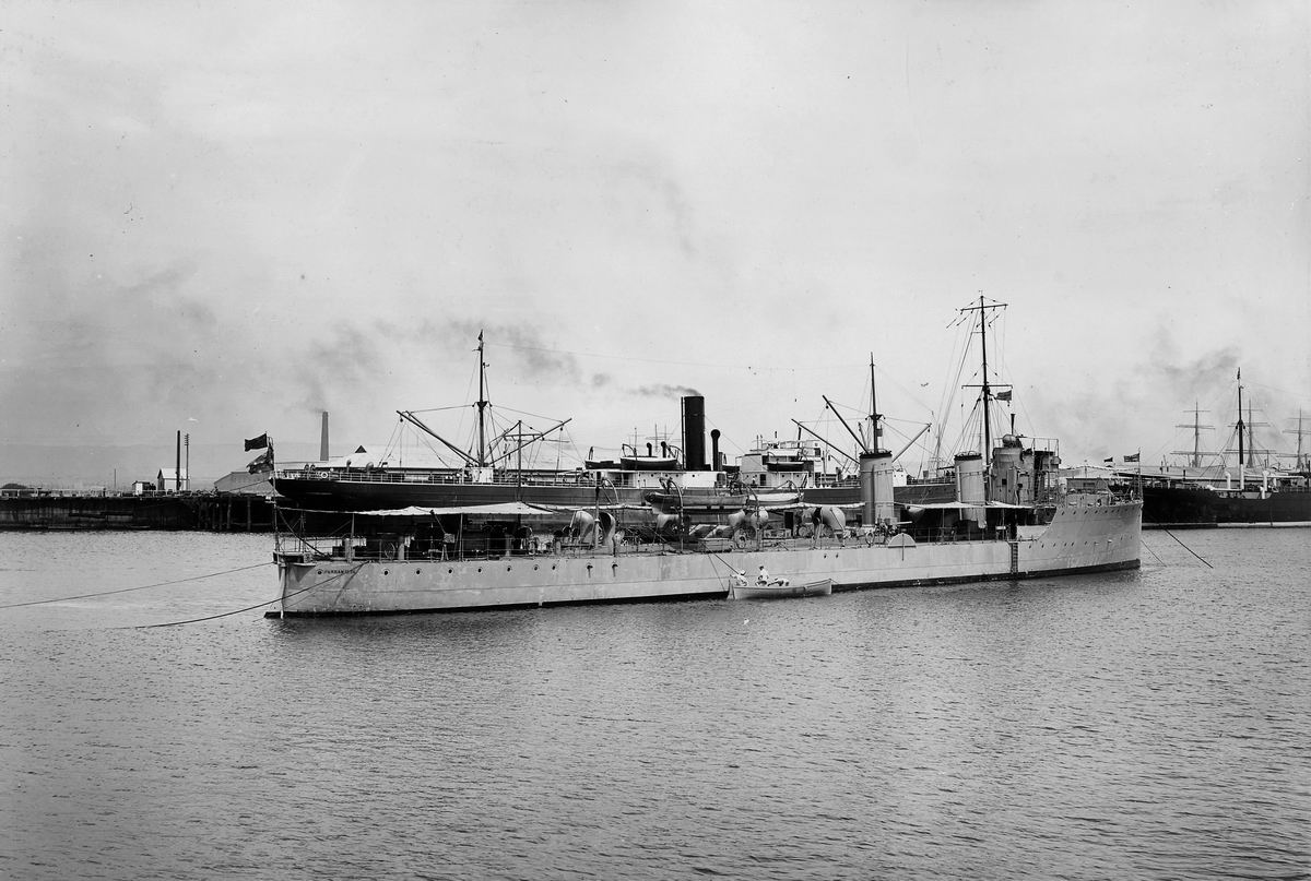 River class destroyer HMAS Parramatta at Port Adelaide, South Australia. HMAS Parramatta and HMAS Yarra were on their delivery voyage from the U.K. They arrived from Albany, Western Australia, on 5 December 1910 and departed for Melbourne, Victoria, on 8 December 1910. PRG 280/1/44/62 Visit the State Library of South Australia to view more photos of South Australia